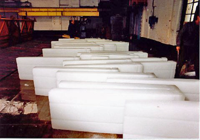 Grimsby Ice Factory - Slab Ice. The ice factory 390198 had 3 giant compressors 1191549 which at maximum could make 30 tonnes of ice per hour. The ice was produced in blocks about 5ft x 2ft x 6inches thick and crushed in the plant prior to use.